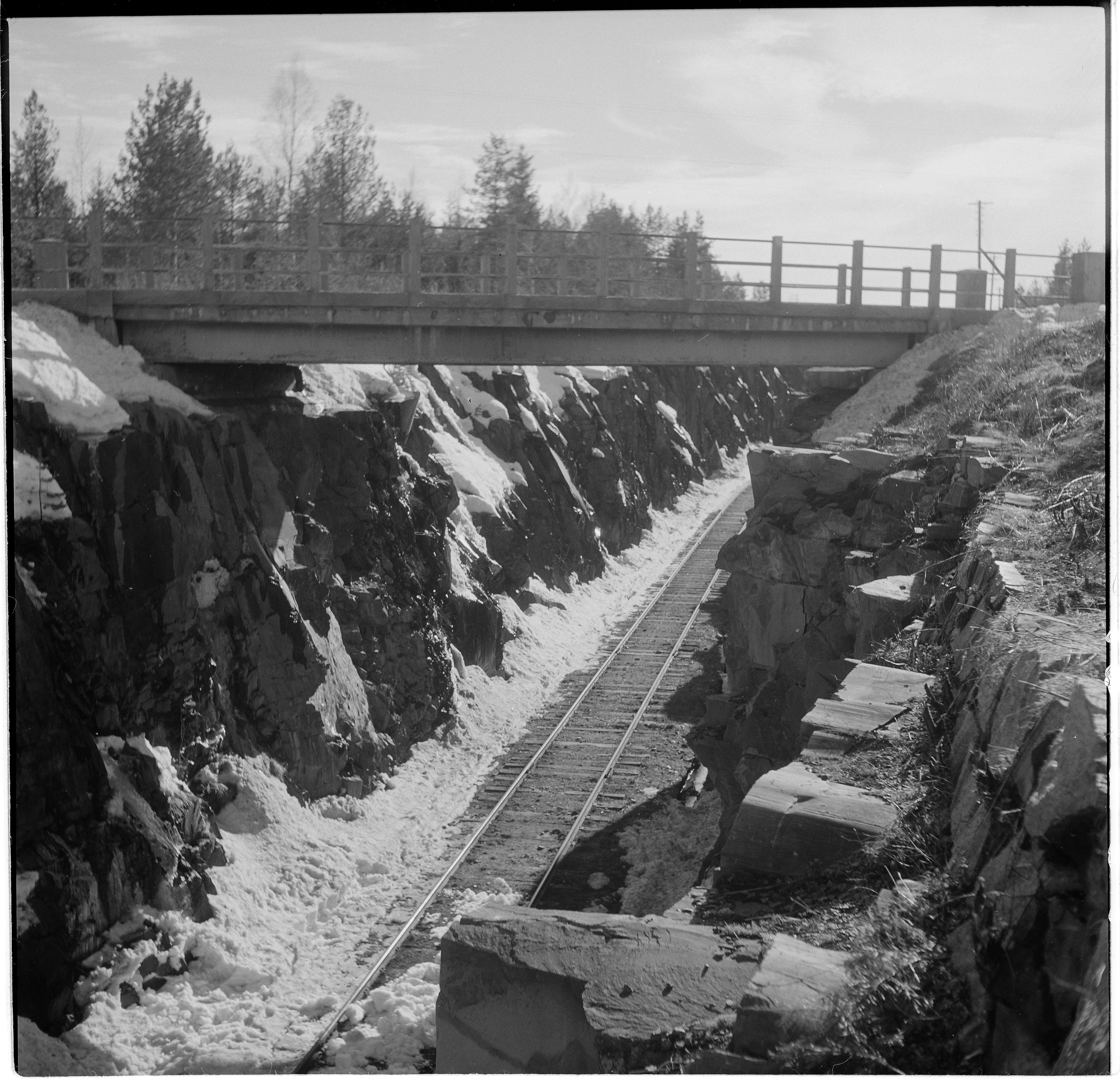 Vlimen rautatieleikkaus maantien kohdalla. Tss olivat Laatokan koillispuolella olleen panssarijunan suoja asemat.